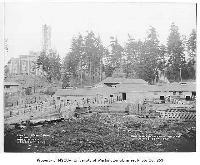 Firland Sanatorium and Hog Farm, Shoreline, November 21, 1934 Photographer: Unknown Subjects (LCSH): Shoreline (Wash.)--Buildings, structures, etc. Digital Collection: Federal Emergency Relief Administration (FERA) Item Number: FER0079 Persistent URL: Visit Special Collections page for information on ordering a copy. University of Washington Libraries. Digital Collections